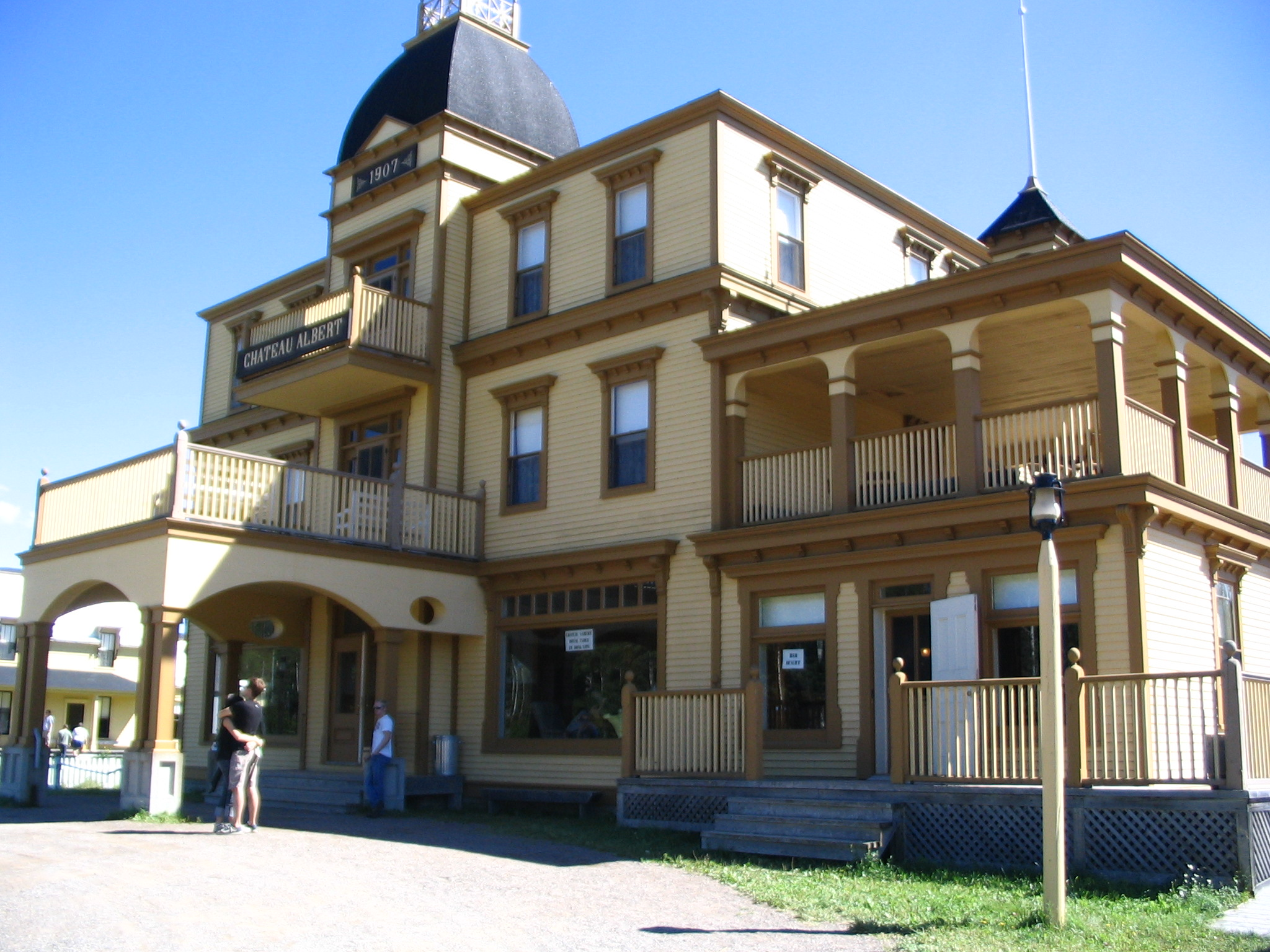 The historic Château Albert hotel in Caraquet.